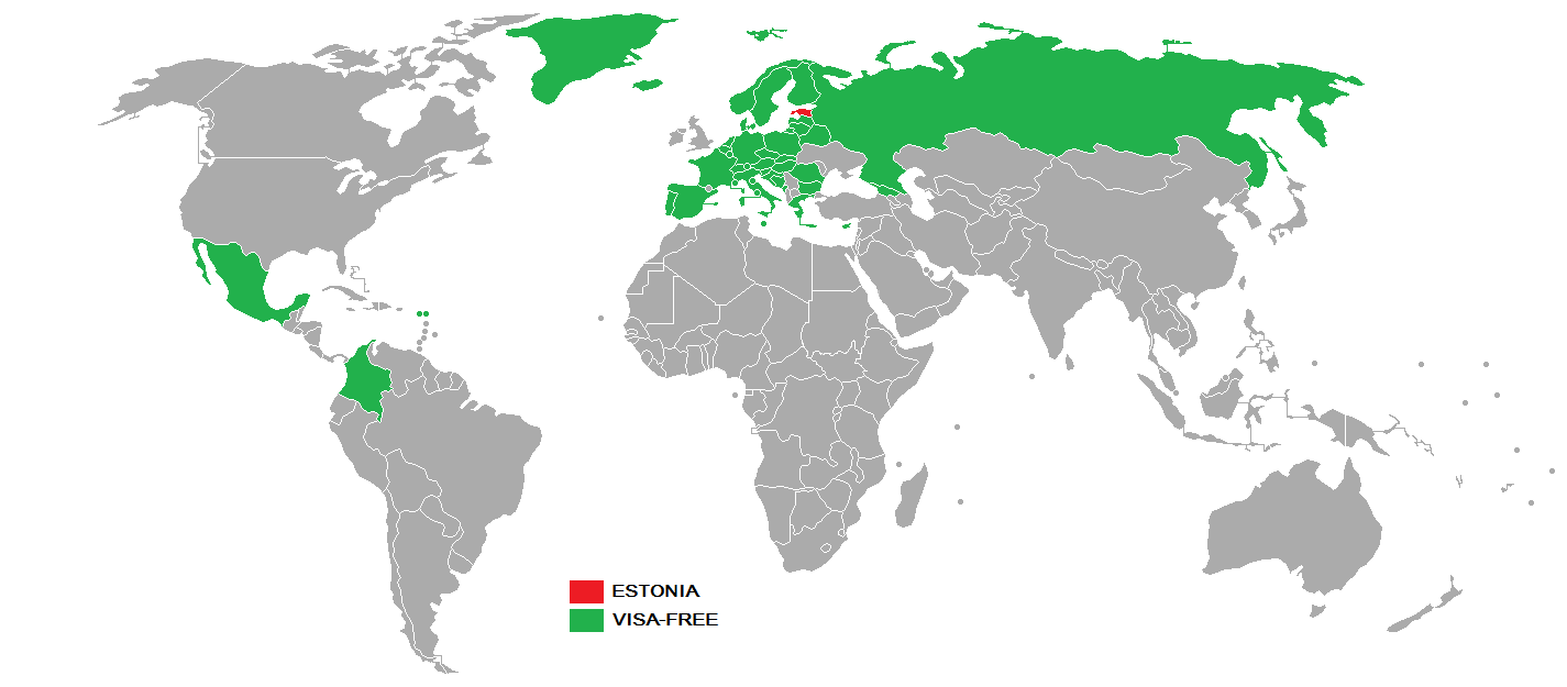 Countries to which non-citizens of Estonia can travel